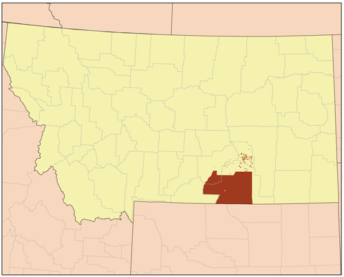 Map of the Crow Indian Reservation.